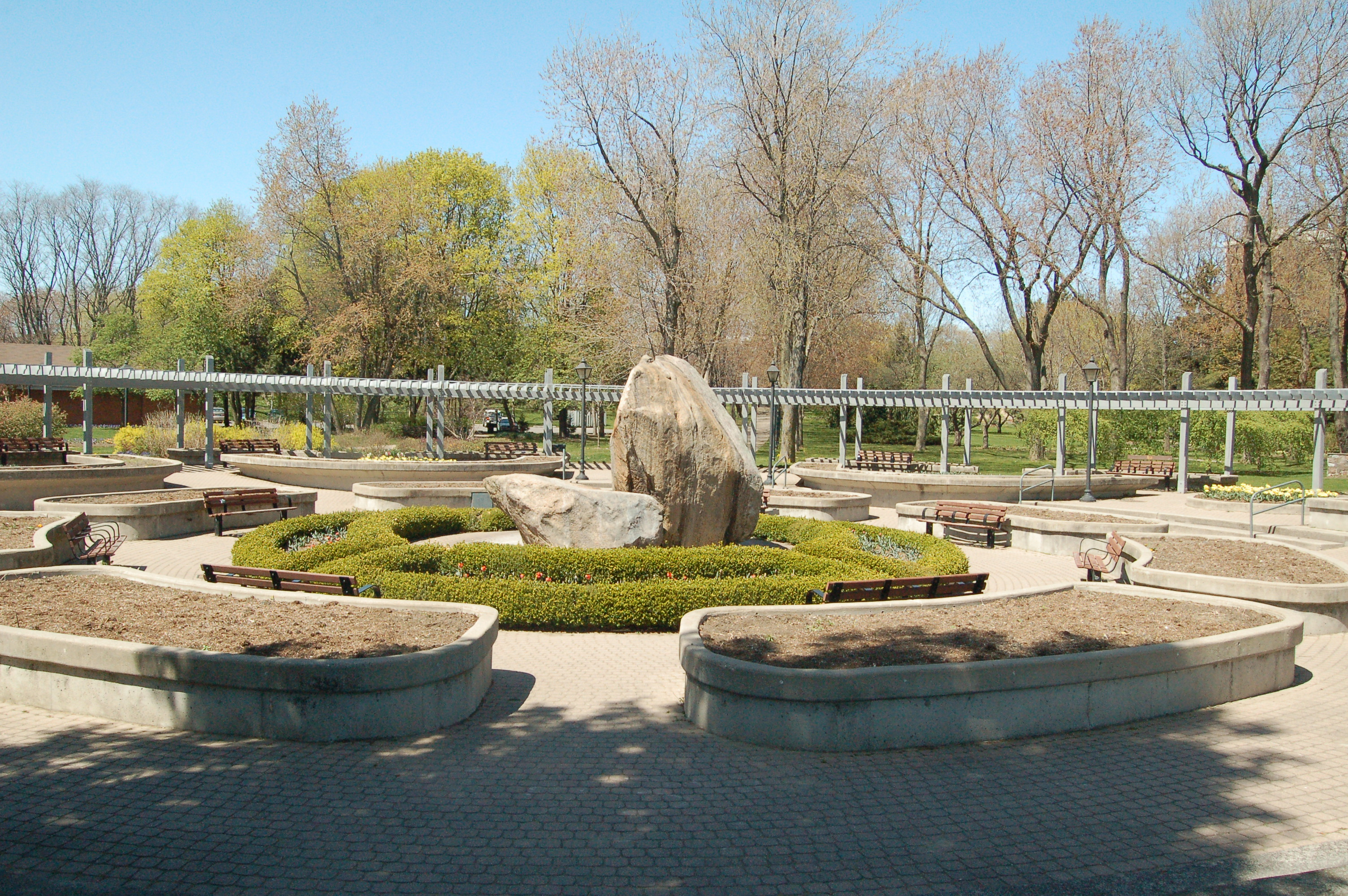 Birch Cliff, Toronto, ON, Canada